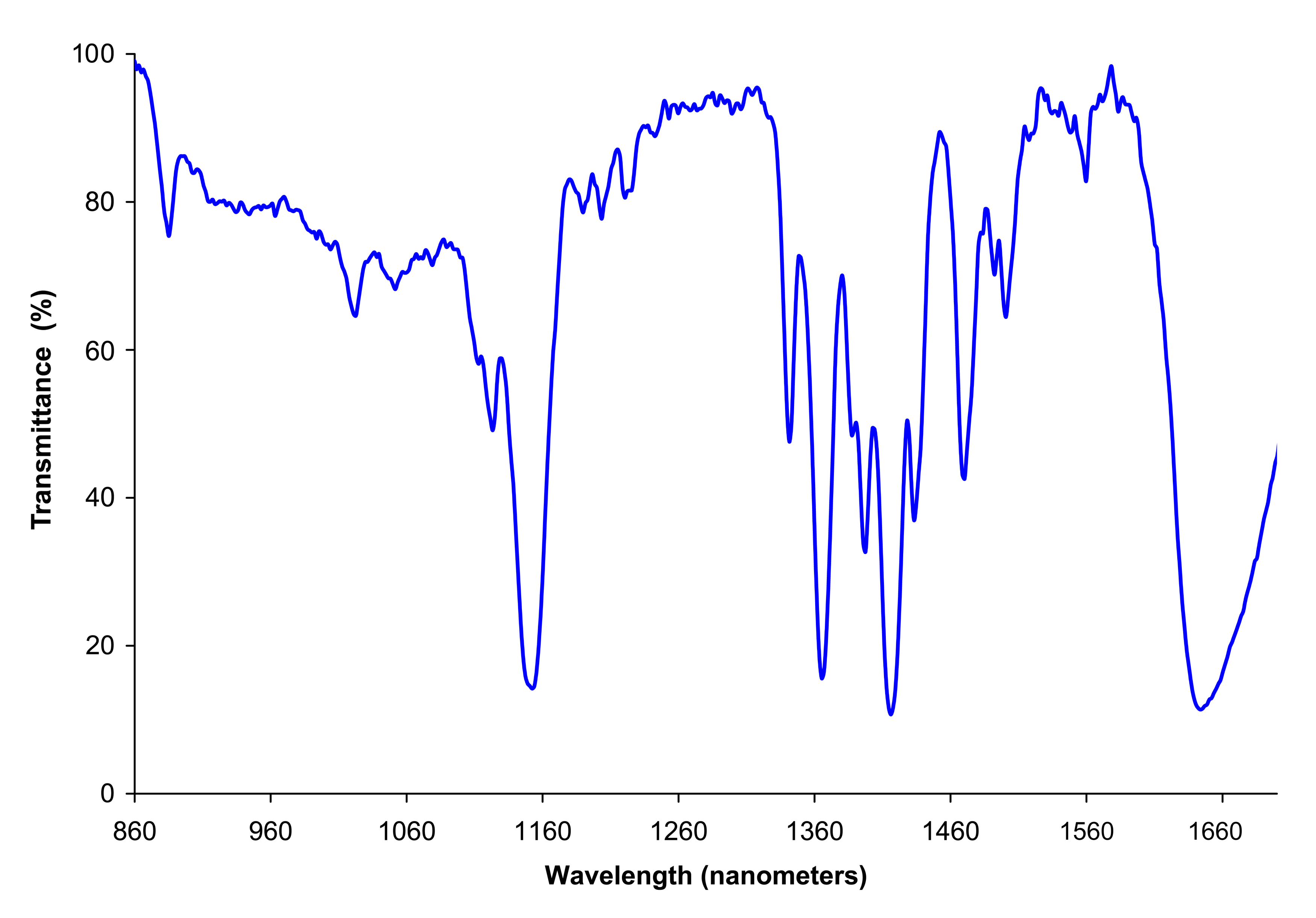 Dichloromethane near IR spectrum. I took this spectrum using an Ocean Optics near IR (NIR-512) temperature-regulated InGaAs detector spectrometer [1] with IR fiber optic light guide. This is a very rough spectrum and should not be used for any kind of quantitative data whatsoever. I took it by shining the light from a halogen lightbulb through a tiny (~20ml) beaker of liquid dichloromethane (~2cm liquid optical path) and into the fiber optic of the spectrometer (I subtracted the spectrum of the empty beaker before taking this one). The spectrometer was not really intended to be used this way and it is a very sloppy way to take a spectrum! Nonetheless, based on comparing it to simillarly taken spectra of water and ethanol, I think it likely fairly accurately shows real features of the NIR spectrum of this compound. I normalized the transmittance to 100%.